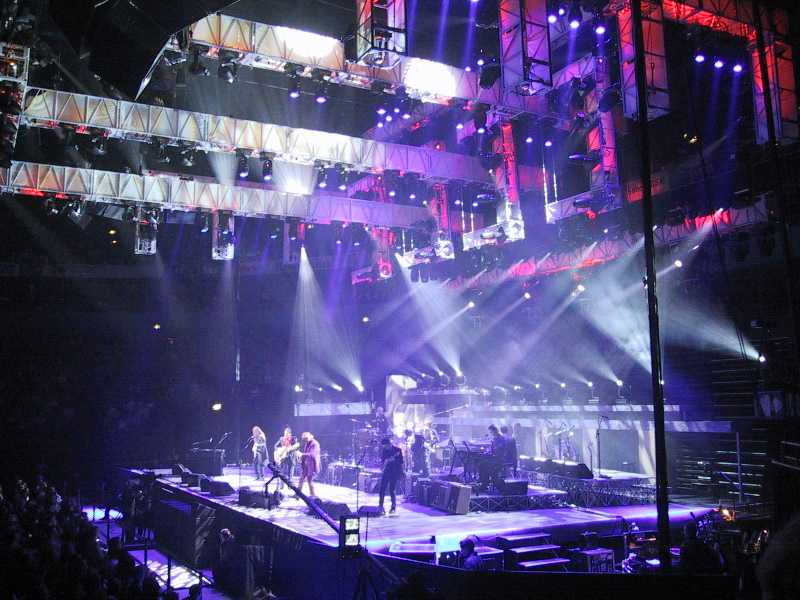 Eagles in concert - Helsinki June 2001 Hartwall Arena